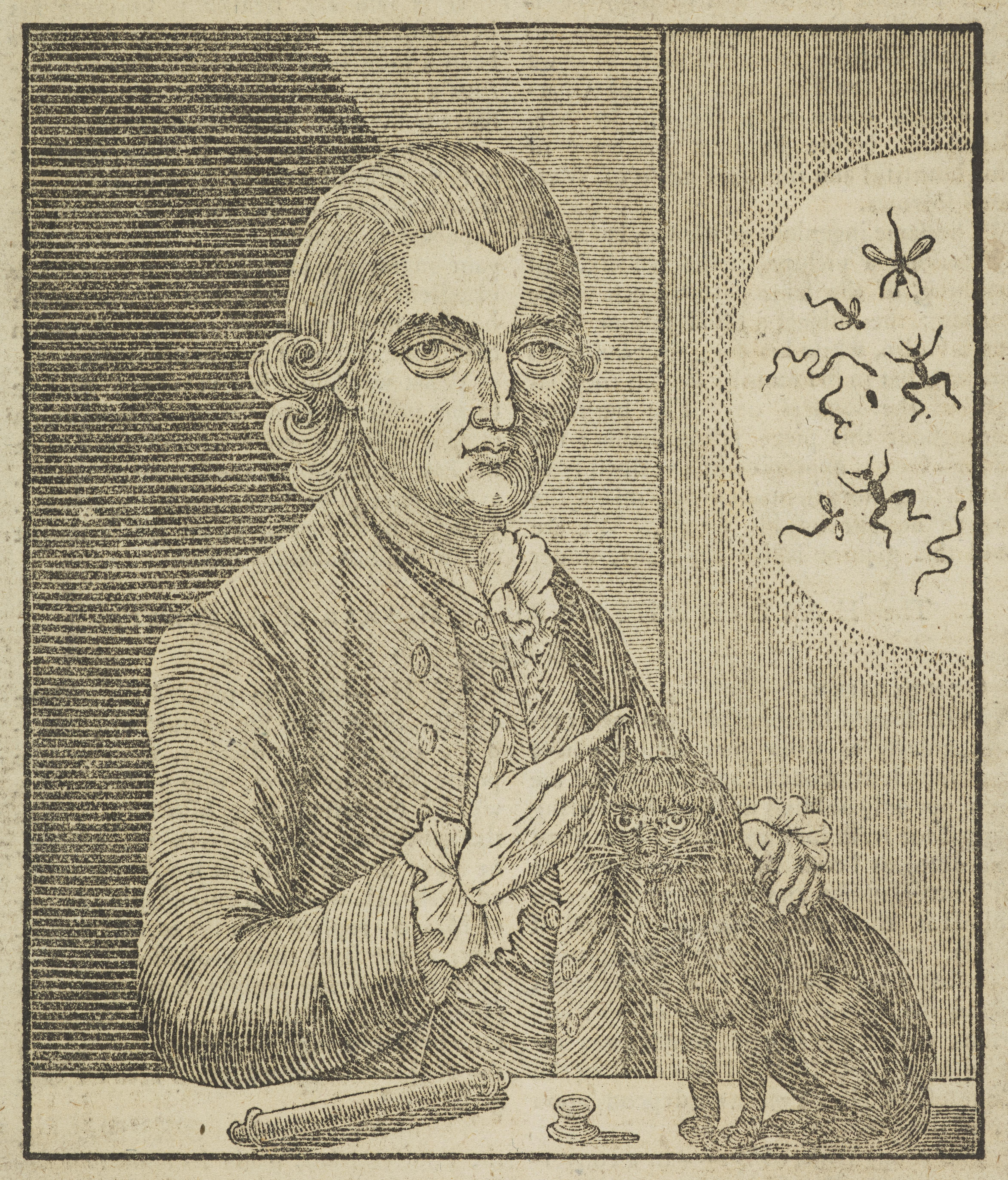 Gustavus Katterfelto in 1783.